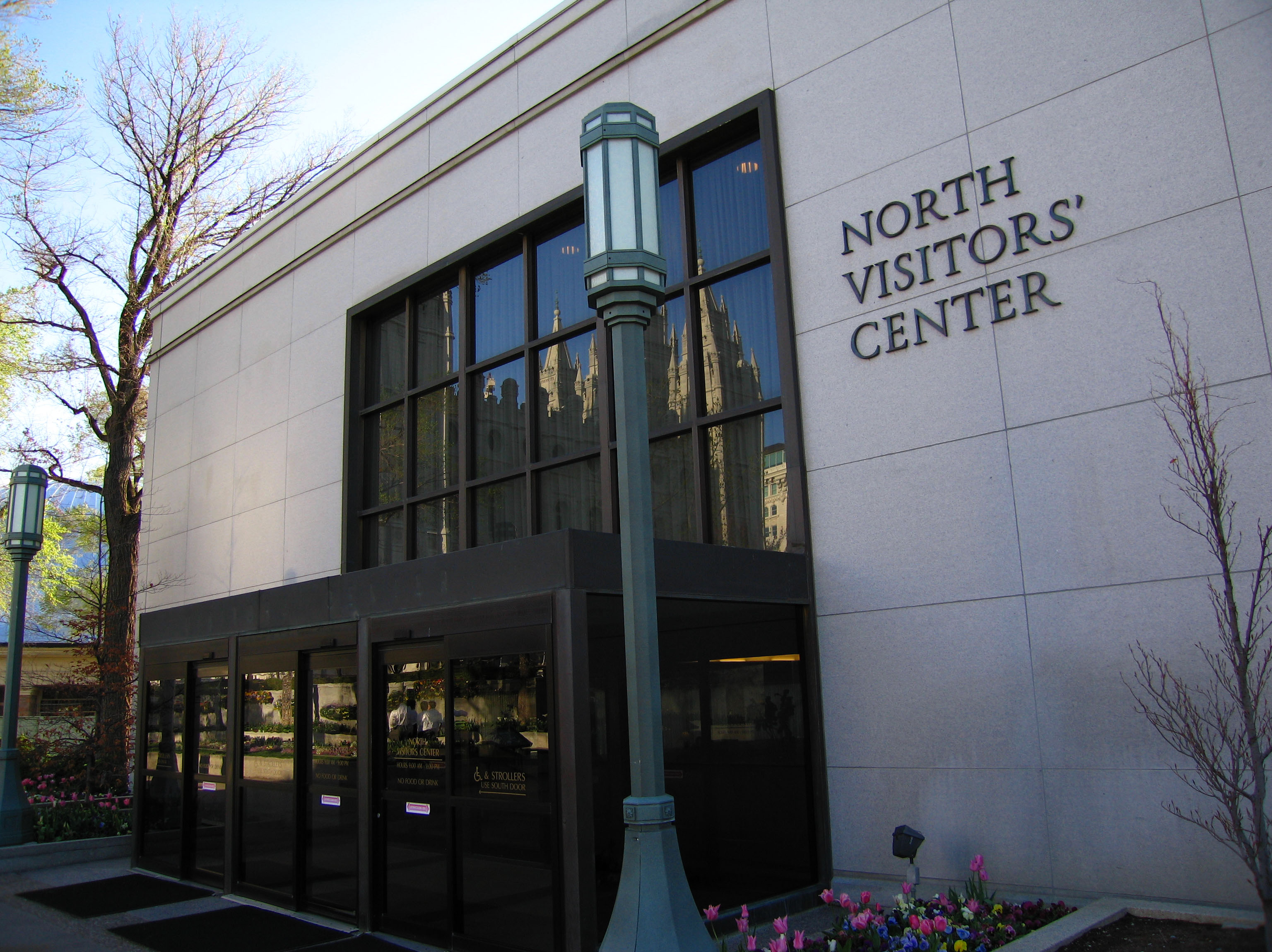 Exterior of North Visitors' Center on Temple Square of the Church of Jesus Christ of Latter-day Saints by Ricardo630 Ricardo630 06:34, 21 April 2006 (UTC)